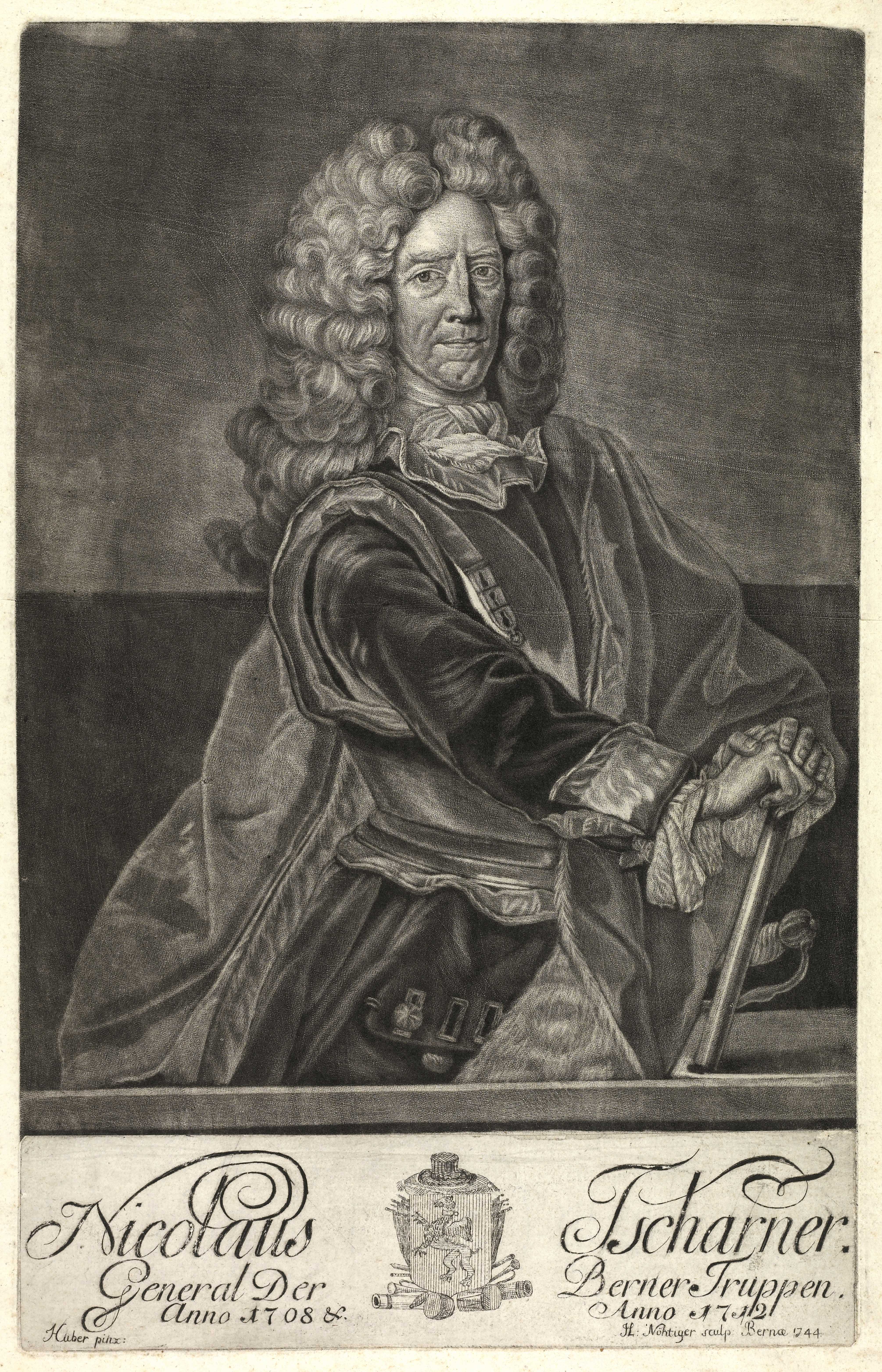 Huber / Nöthiger, Niklaus Tscharner